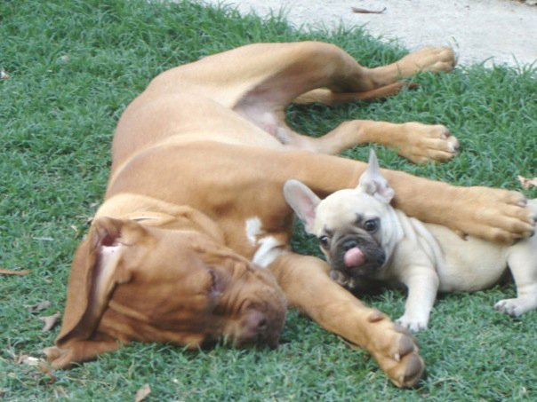 Ray y leo jugando